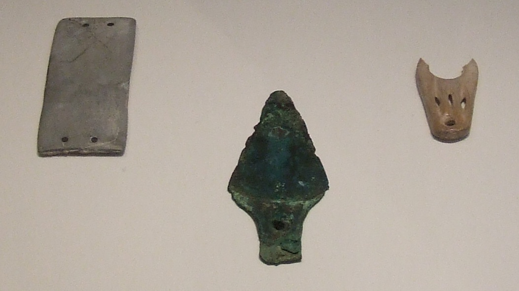 A Copper age grave group featuring 1)stone wristguard 2)copper dagger 3)bone belt fitting found at Sittingbourne, now in the British Museum